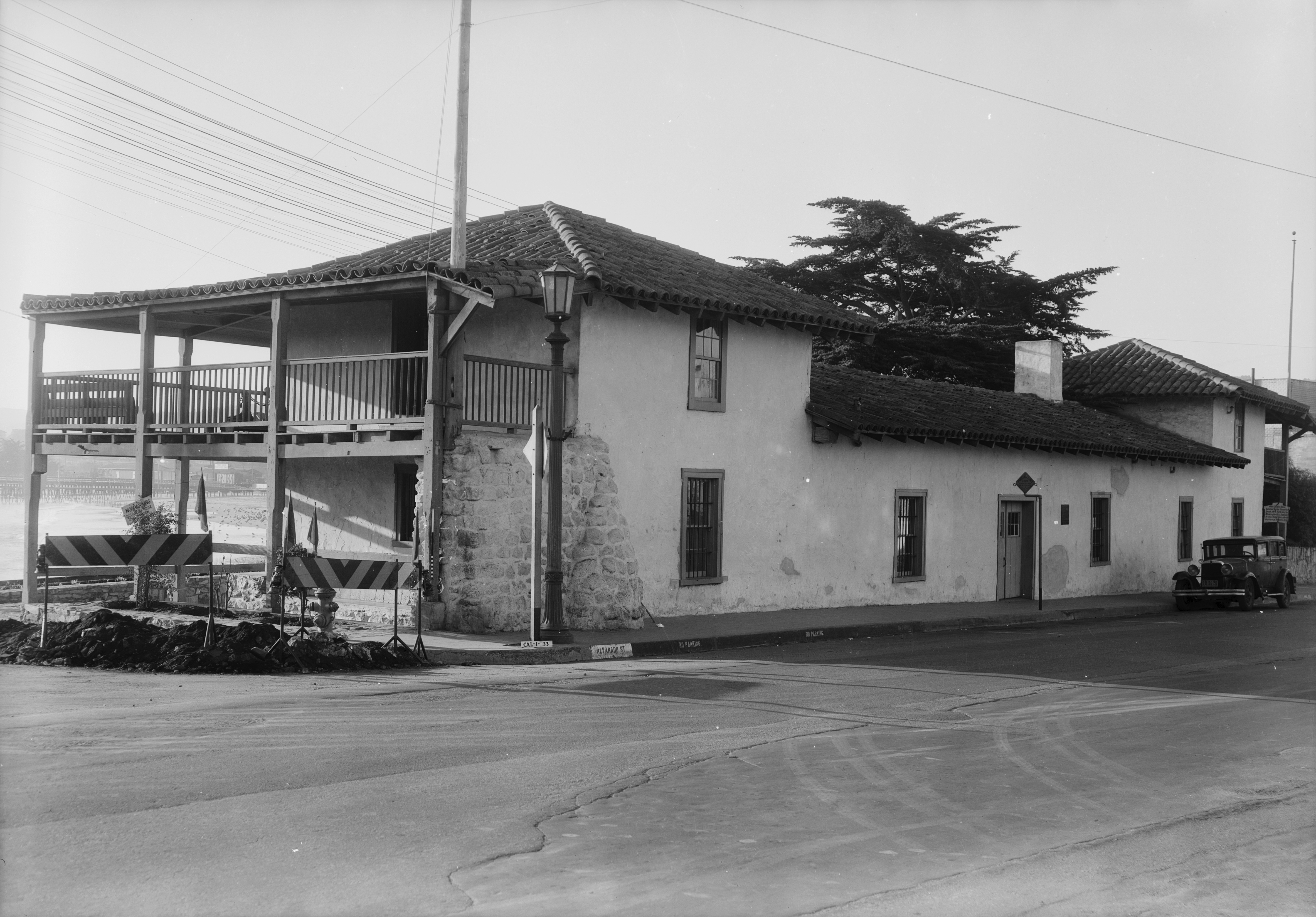 Custom House, Custom House Plaza, Monterey (Monterey County, California) - (cropped). Historic American Buildings Survey—HABS image.